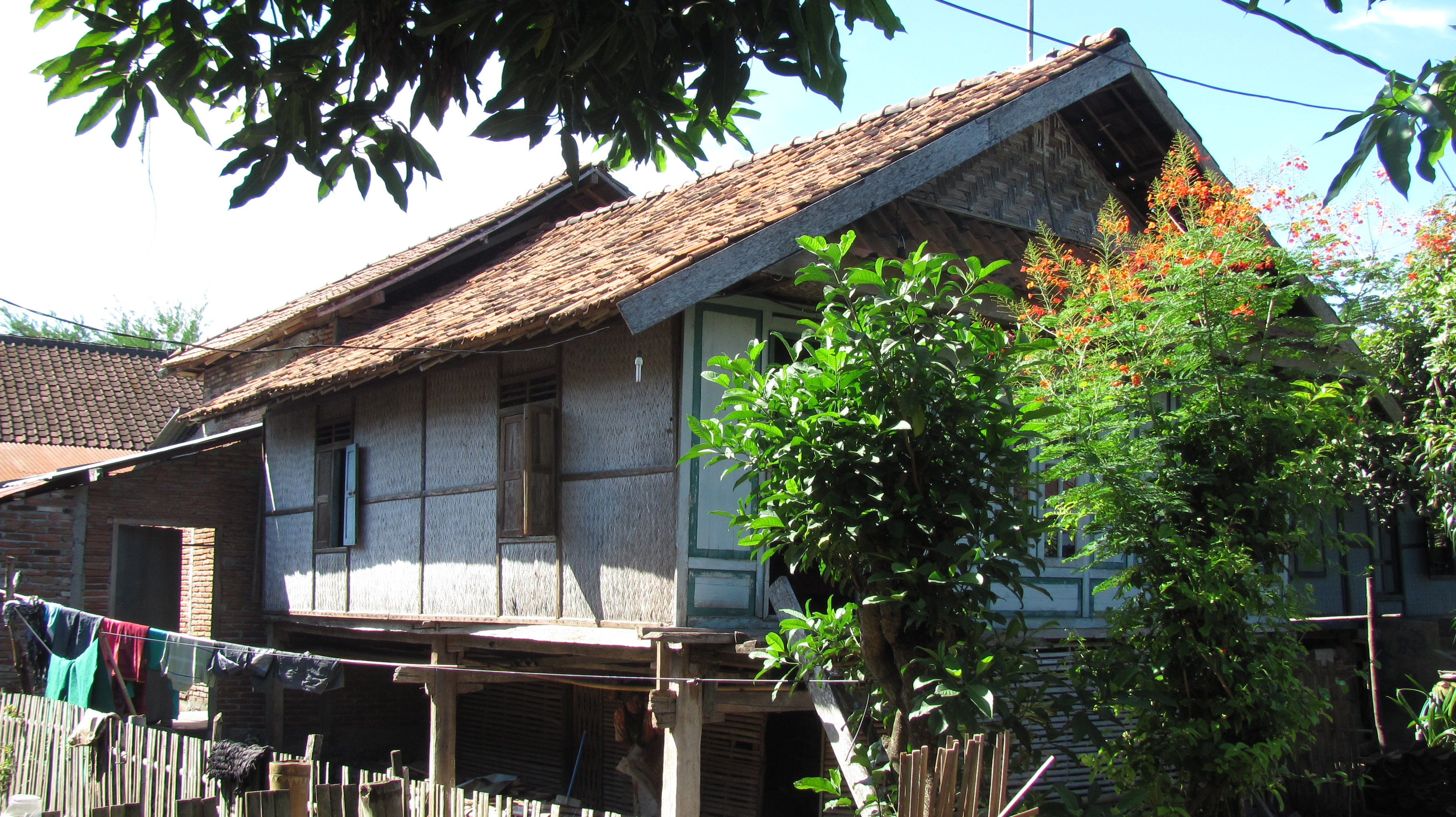 Traditional architecture in Poto near Sumbawa Besar, Sumbawa, Indonesia